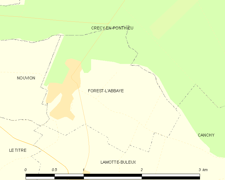 Map of French municipality Forest-l'Abbaye